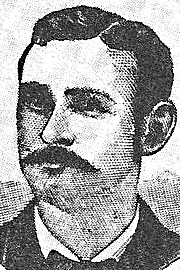 Photograph of Jumping Jack Jones from the 1883 Philadelphia Athletics team composite